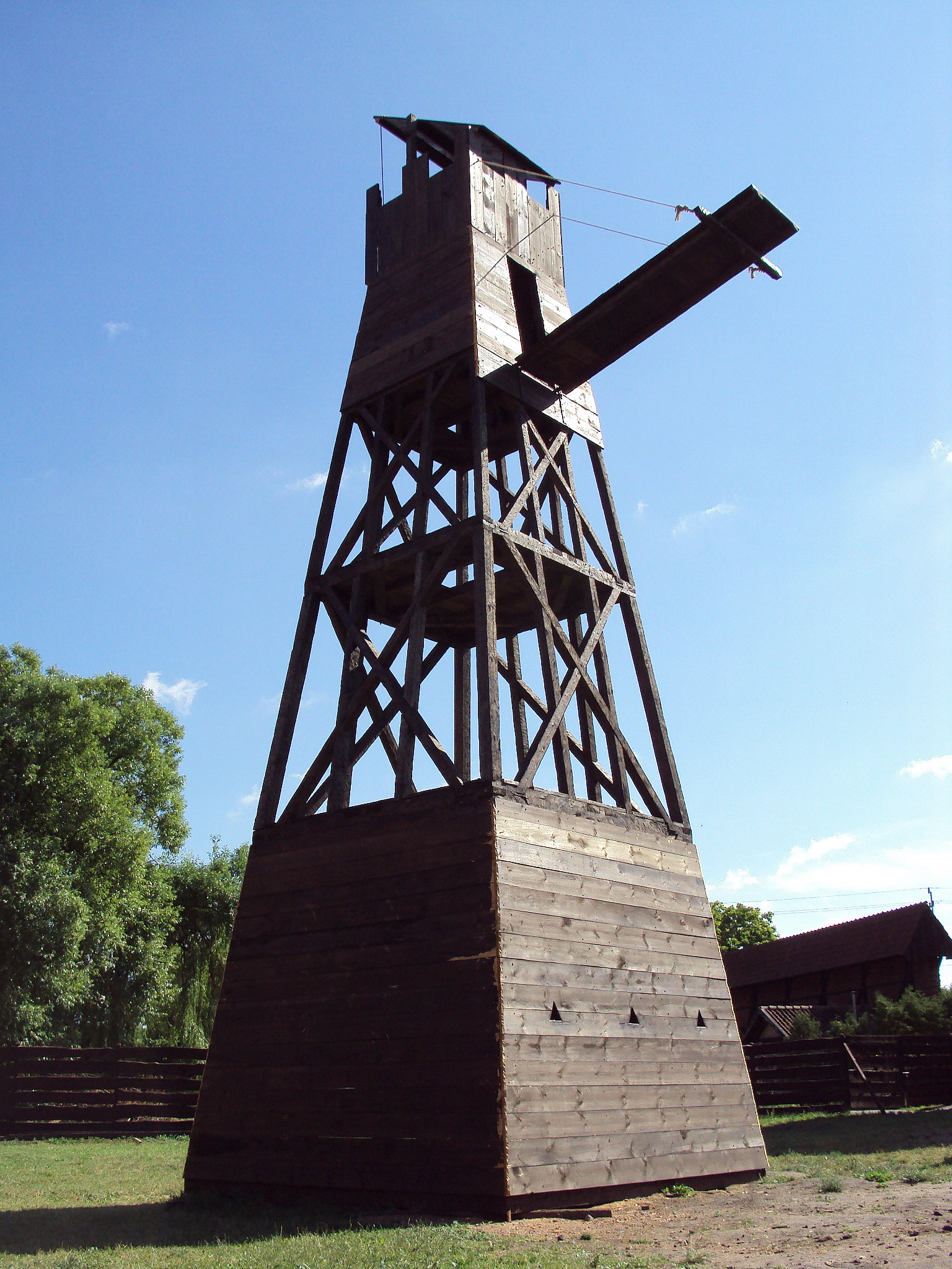 The reconstruction of the exhibition in Malbork (Poland) siege engines.